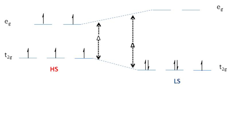 Own Work